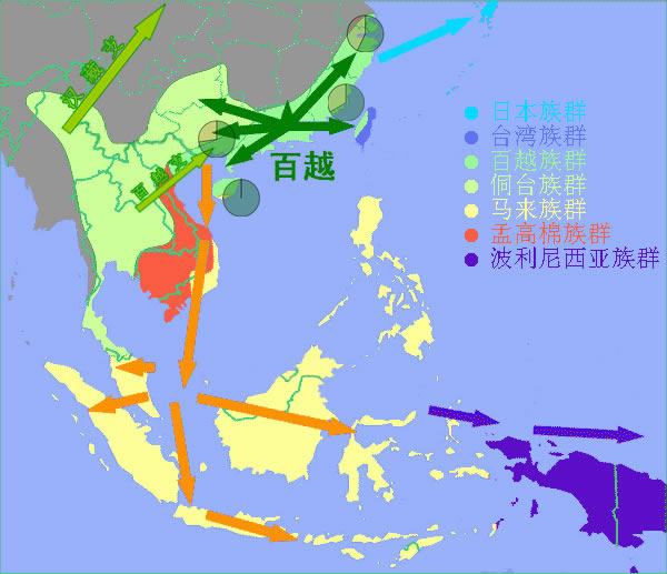 Ethnic Baiyue